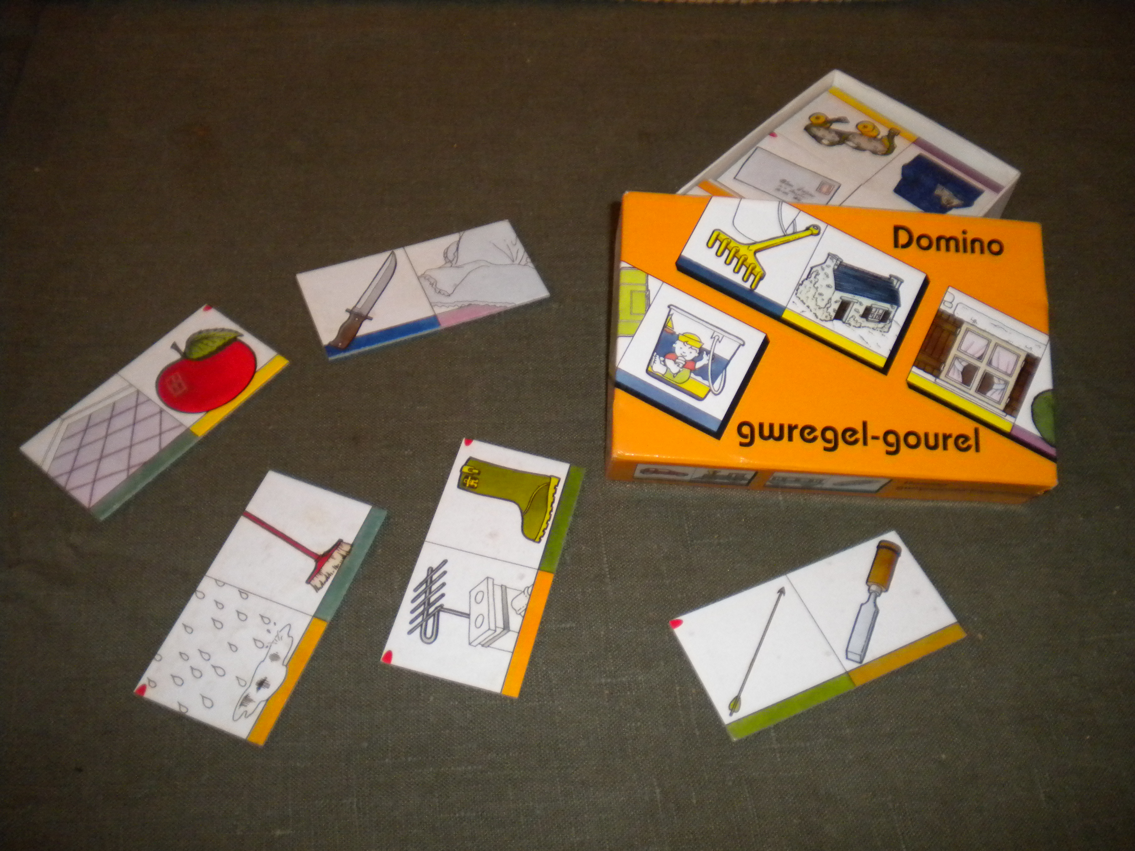 Breton game of domino